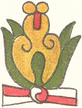 The Aztec day sign xochitl (flower).